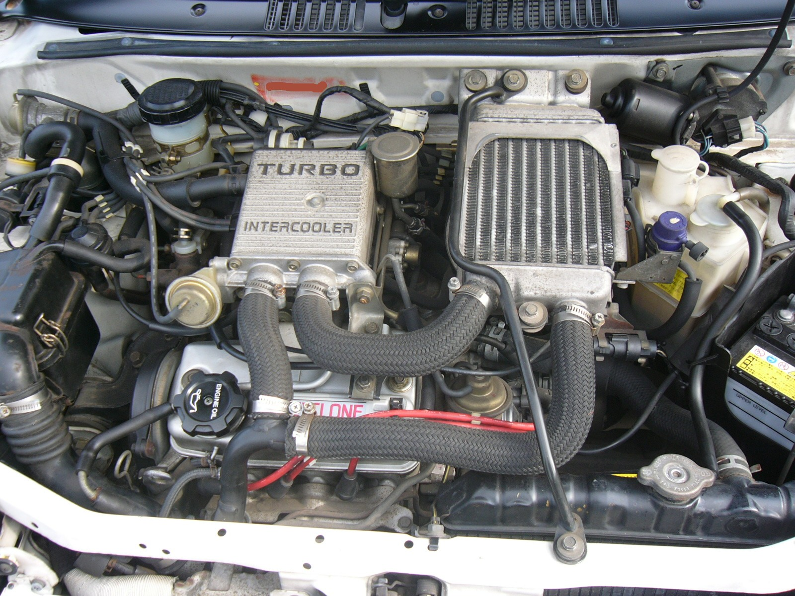 5th generation Mitsubishi Minica Econo 3G81 Carburetor Turbo engine (H14V). Taken in 2013 MMF Okazaki.